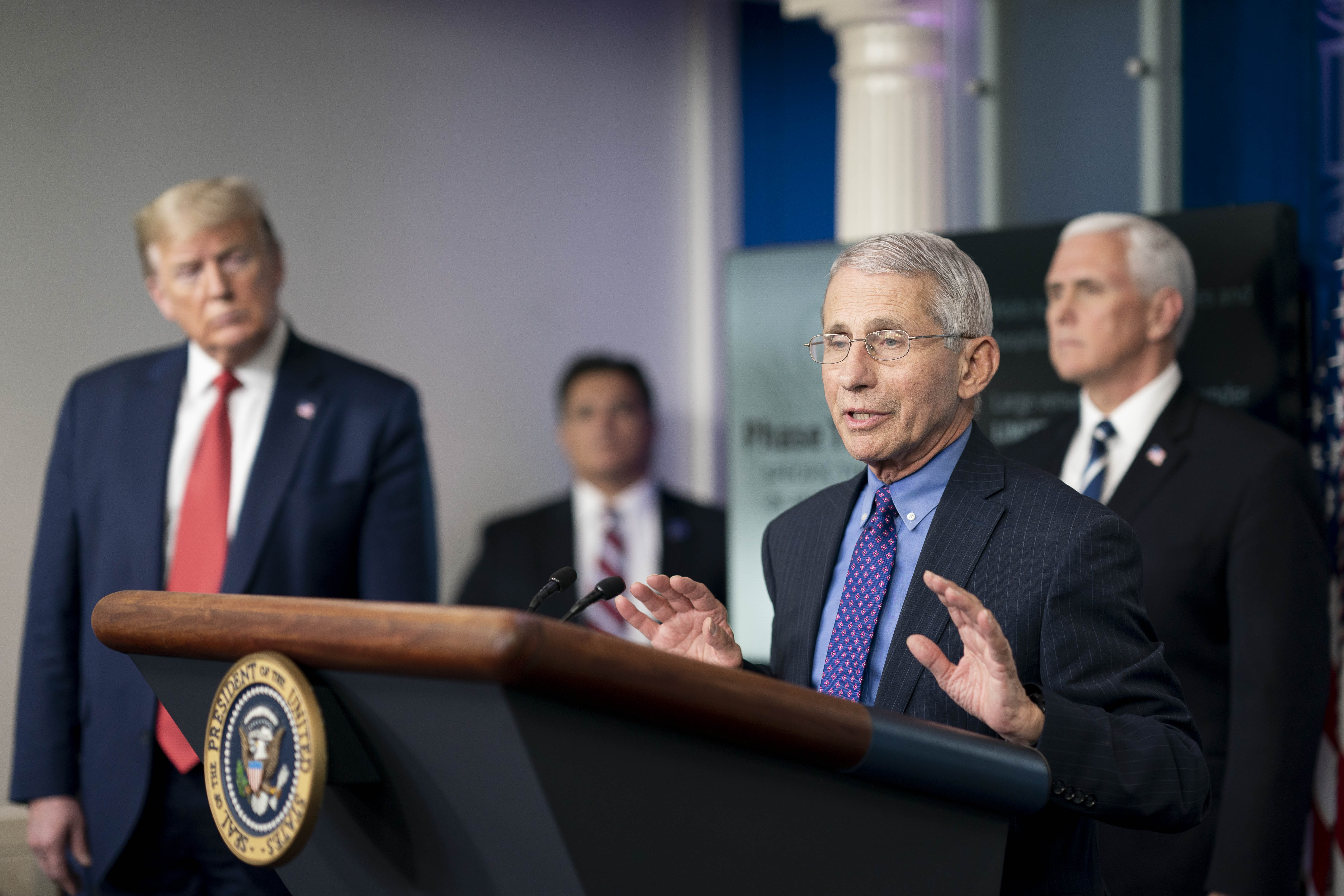 President Donald J. Trump, joined by Vice President Mike Pence, listen as Director of the National Institute of Allergy and Infectious Diseases Dr. Anthony S. Fauci delivers remarks during a coronavirus update briefing Thursday, April 16, 2020, in the James S. Brady Press Briefing Room of the White House. (Official White House Photo by Andrea Hanks)